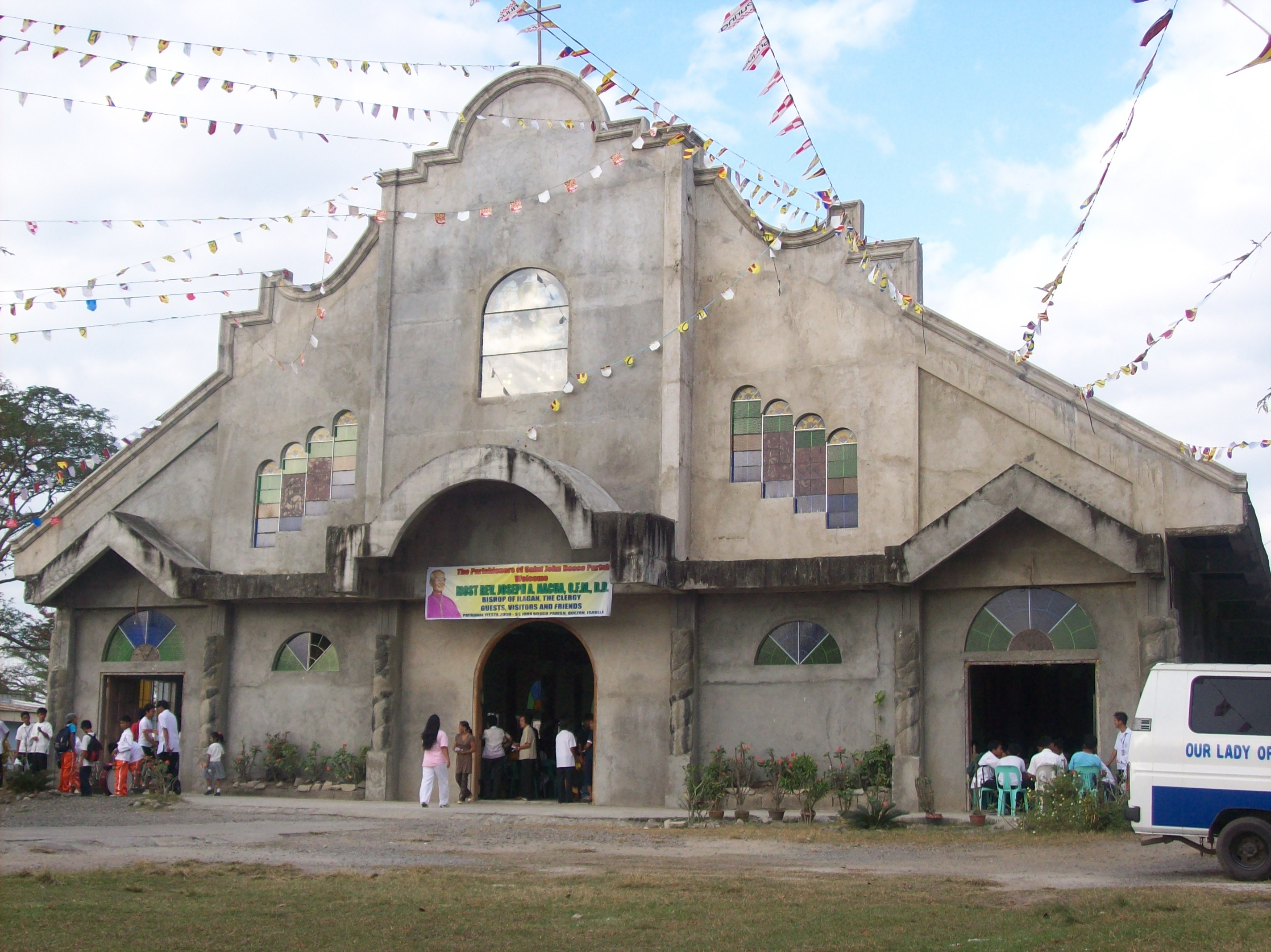 St. John Bosco Church (possible in the Quezon, Isabela)